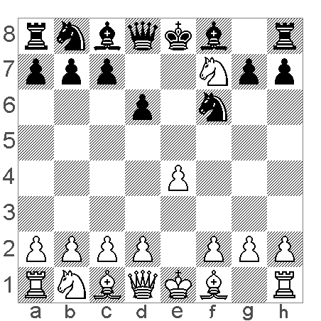 chess diagram Cochrane gambit Source: CBlight + my processing